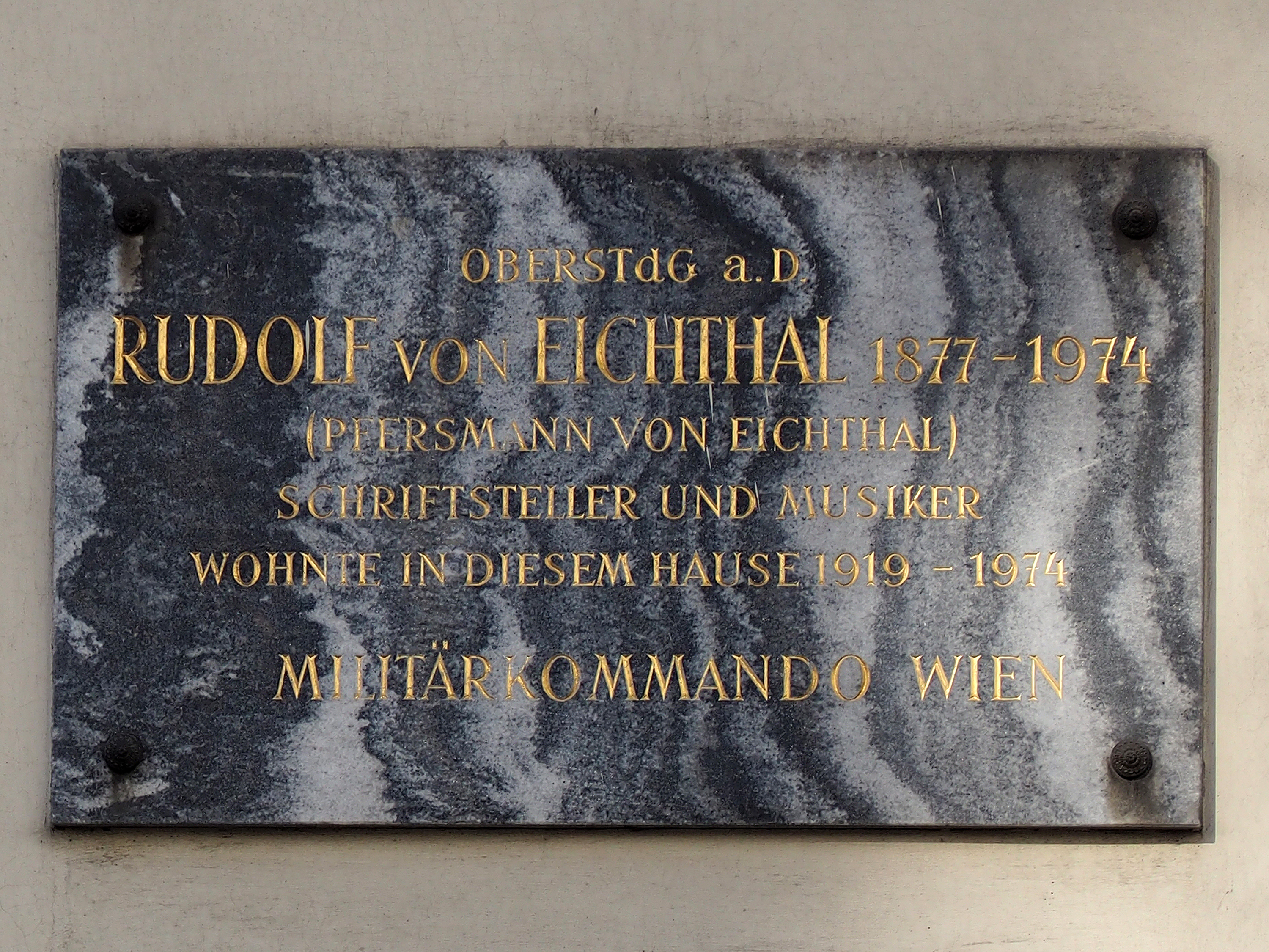 Memorial plaque of the colonel, writer and musician Rudolf von Eichthal (Rudolf Pfersmann von Eichthal; 1877–1974), attached to the building where he lived from 1919 until 1974. Landstraßer Hauptstraße 4, 1030 Vienna